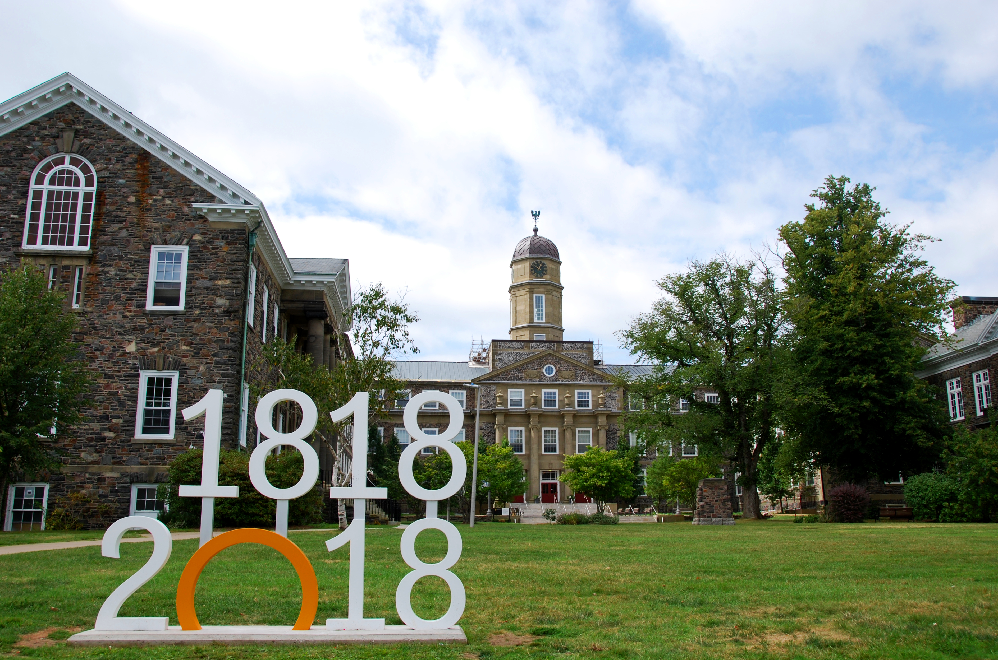 The Henry Hicks Academic Administration Building at Dalhousie University is seen behind a sign commemorating the university's 200-year anniversary in 2018.